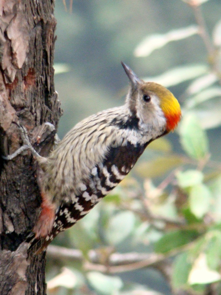 Brown-fronted Woodpecker (Dendrocopos auriceps)